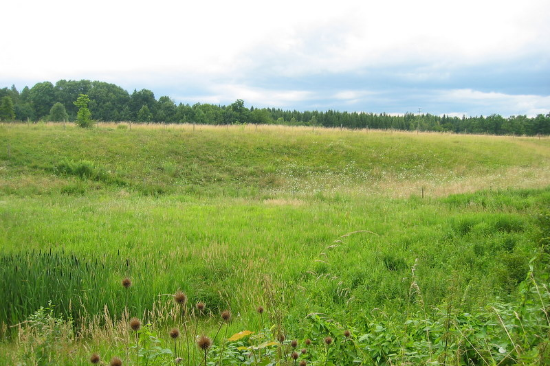 Grubmühler Feld